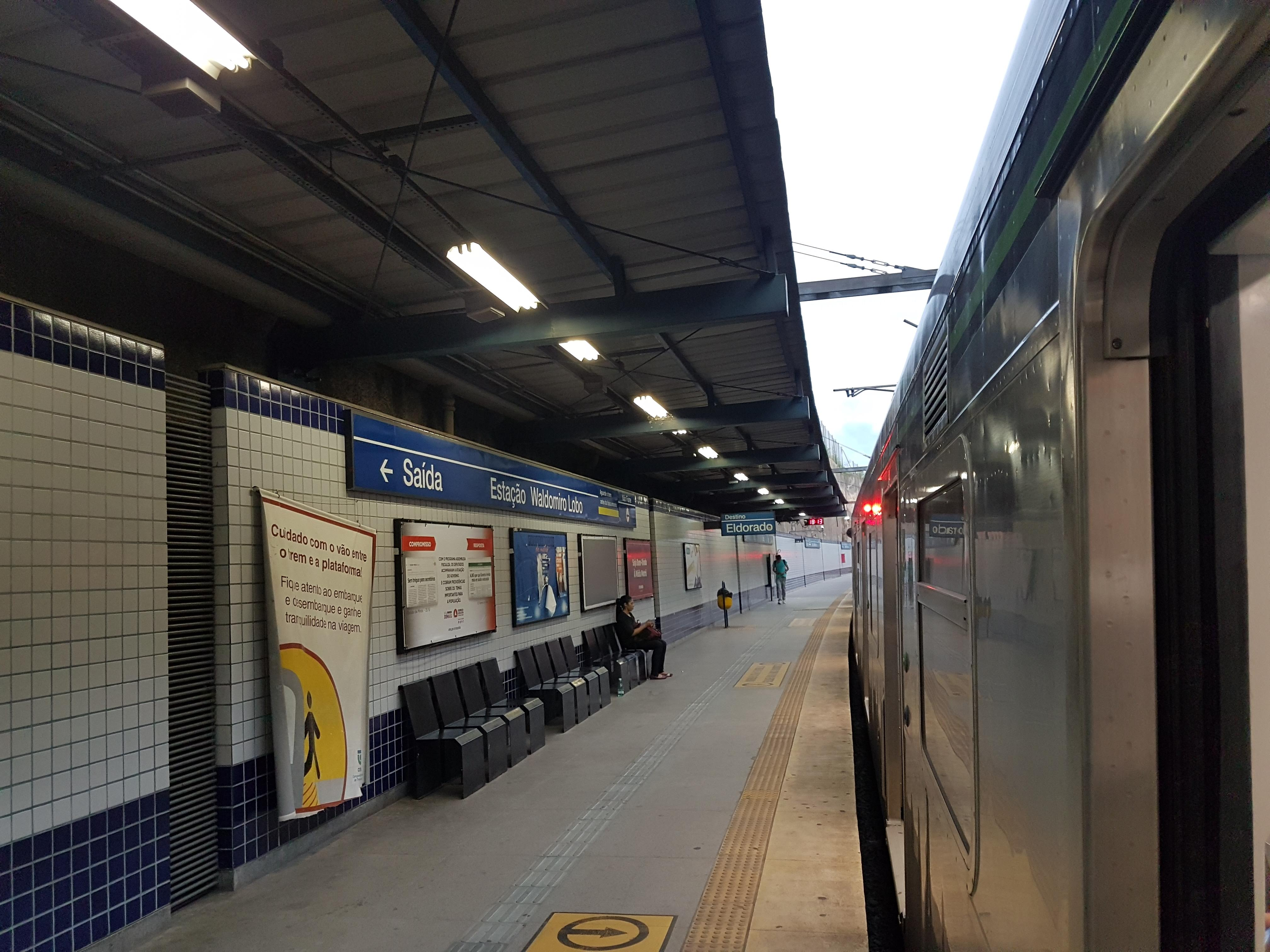 Floramar Waldomiro Lobo, in Belo Horizonte, Minas Gerais, Brazil.